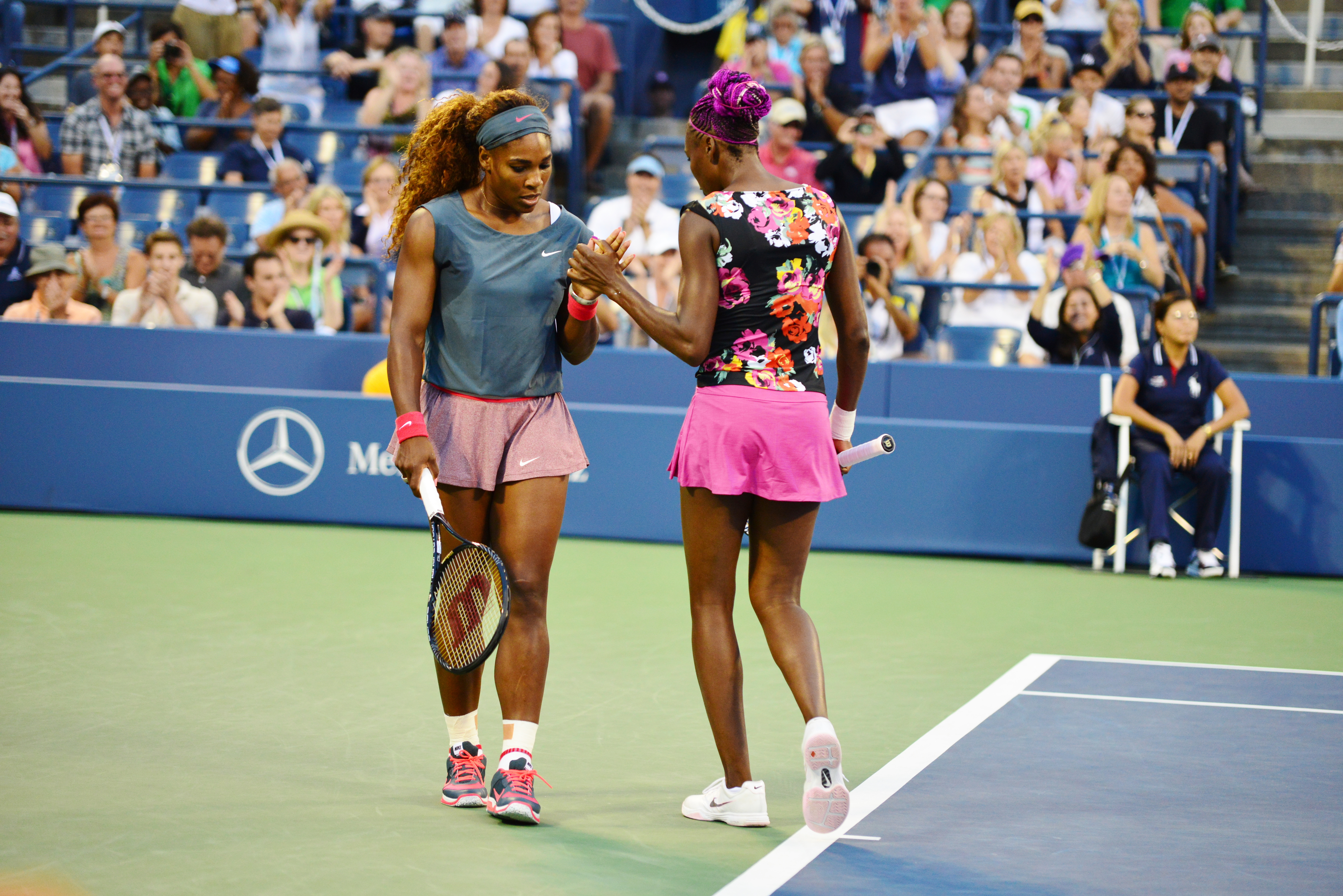 1st round doubles action from the Women's draw at the 2013 US Open. Serena and Venus Williams defeated Silvia Soler-Espinosa and Carla Suarez Navarro; 6-7(5), 6-0, 6-3